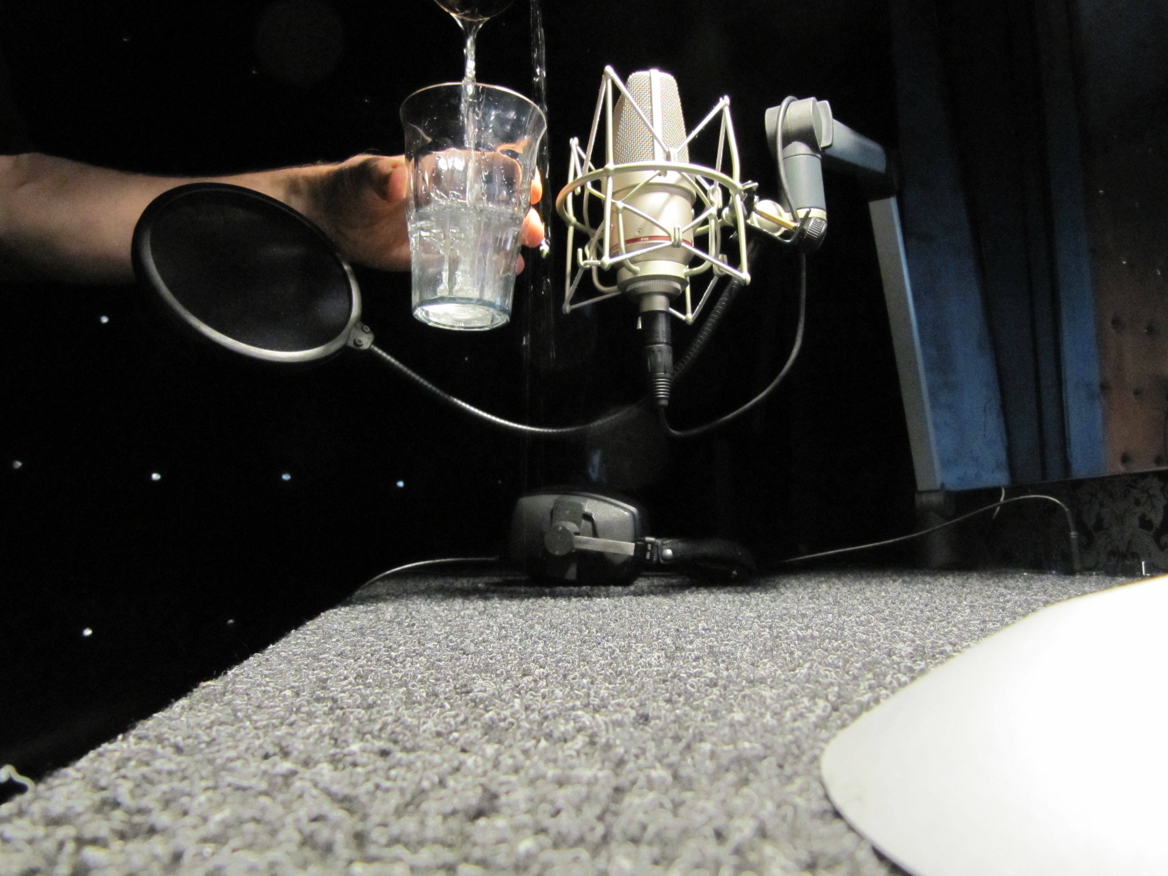 This was for "Vroege Vogels" (air date September 22, 2009), where Menno was supposedly peeing in a jar. I created a similar sound with water and two glasses. The microphone is a Neumann TLM 170R.